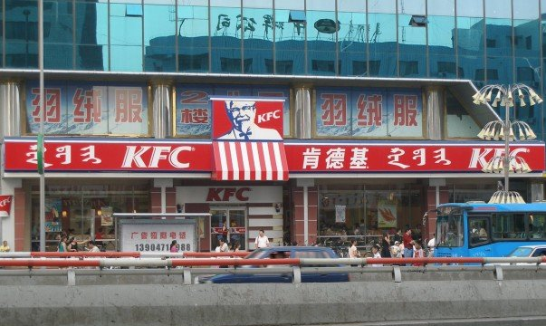 A KFC in Hohhot, Inner Mongolia - Signage is in English, Chinese, and Mongolian